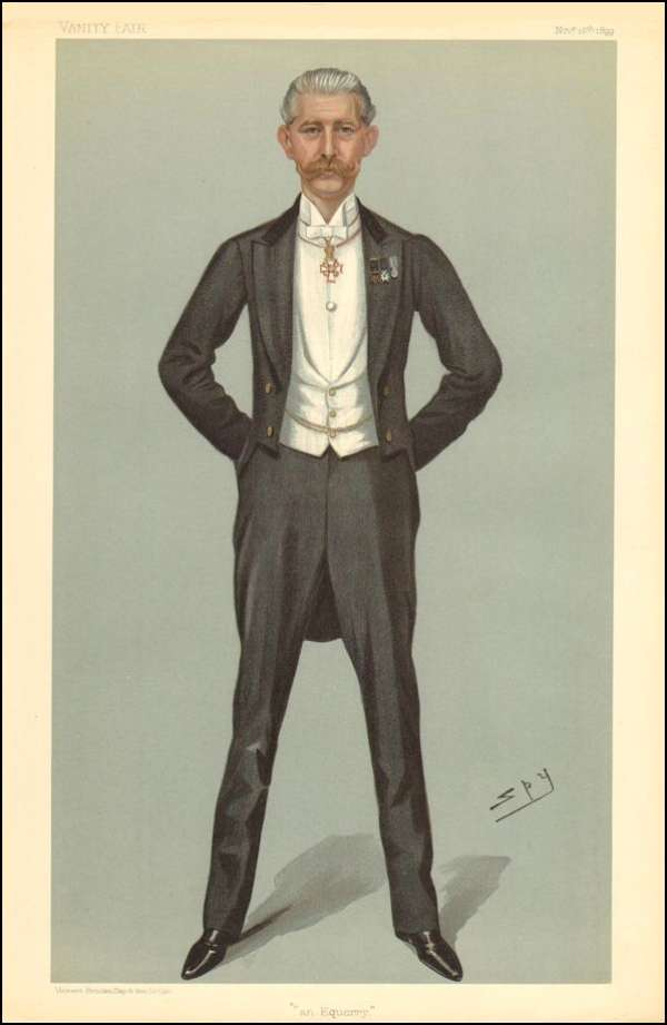 A caricature of Sir George Lindsay Holford. Caption read "an Equerry".